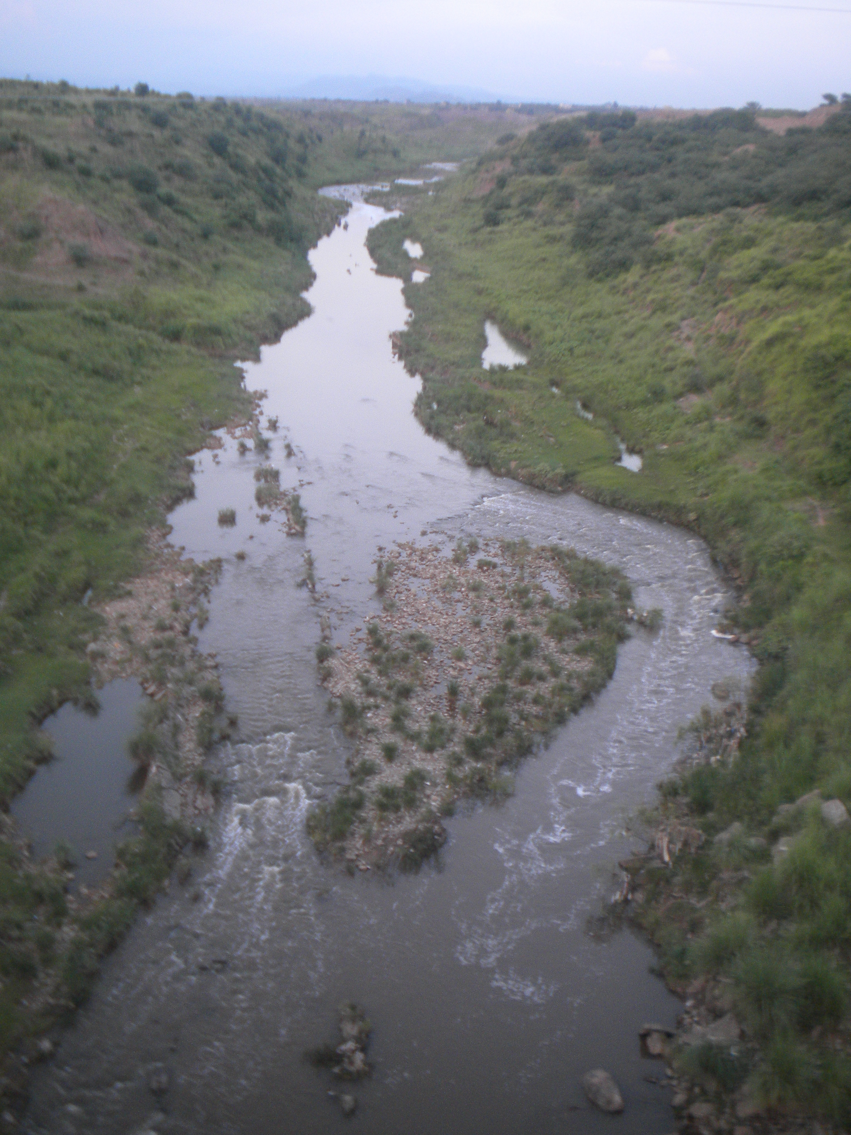 Korang Nala in Islamabad, Pakistan